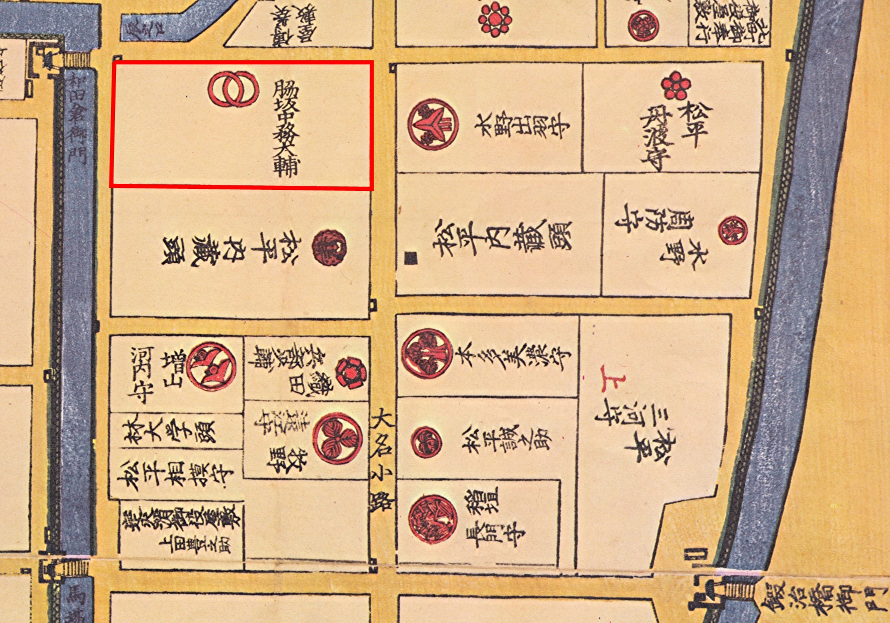 Temporary residence of Wakizaka clan at Edo